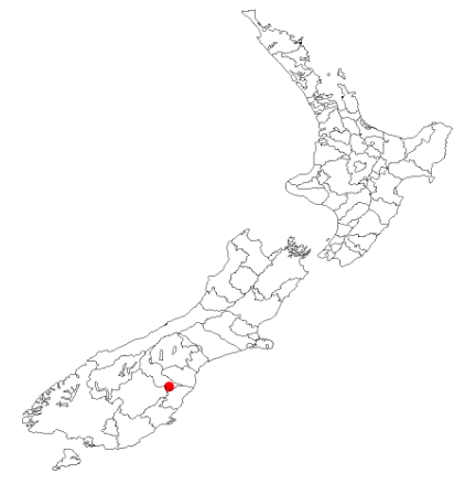 Carmichaelia ramosa occurrence data from Australasian Virtual Herbarium downloaded 2 December 2019 using